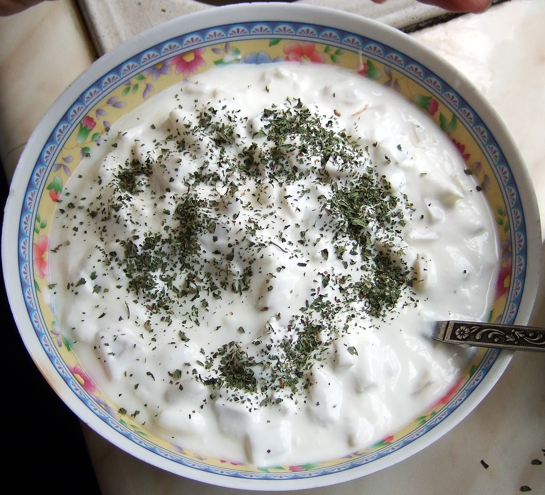 Yogurt with shallot and mint